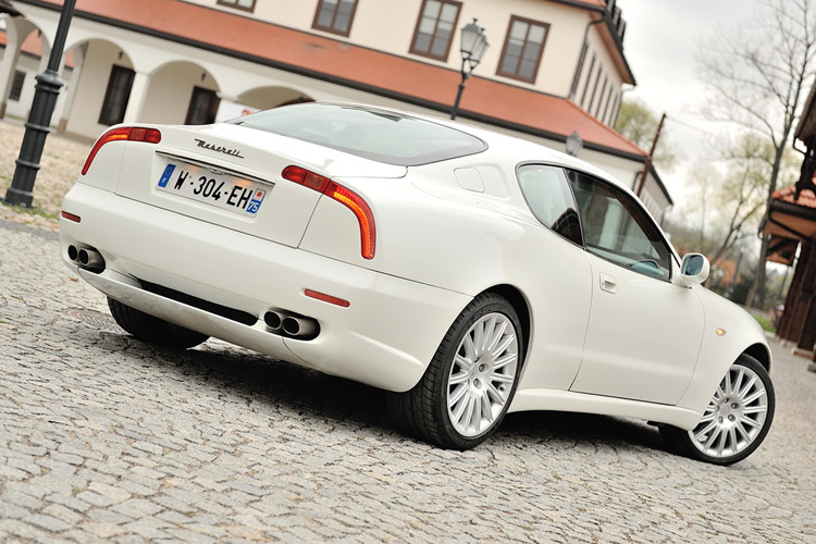 Maserati 3200 GT Back view